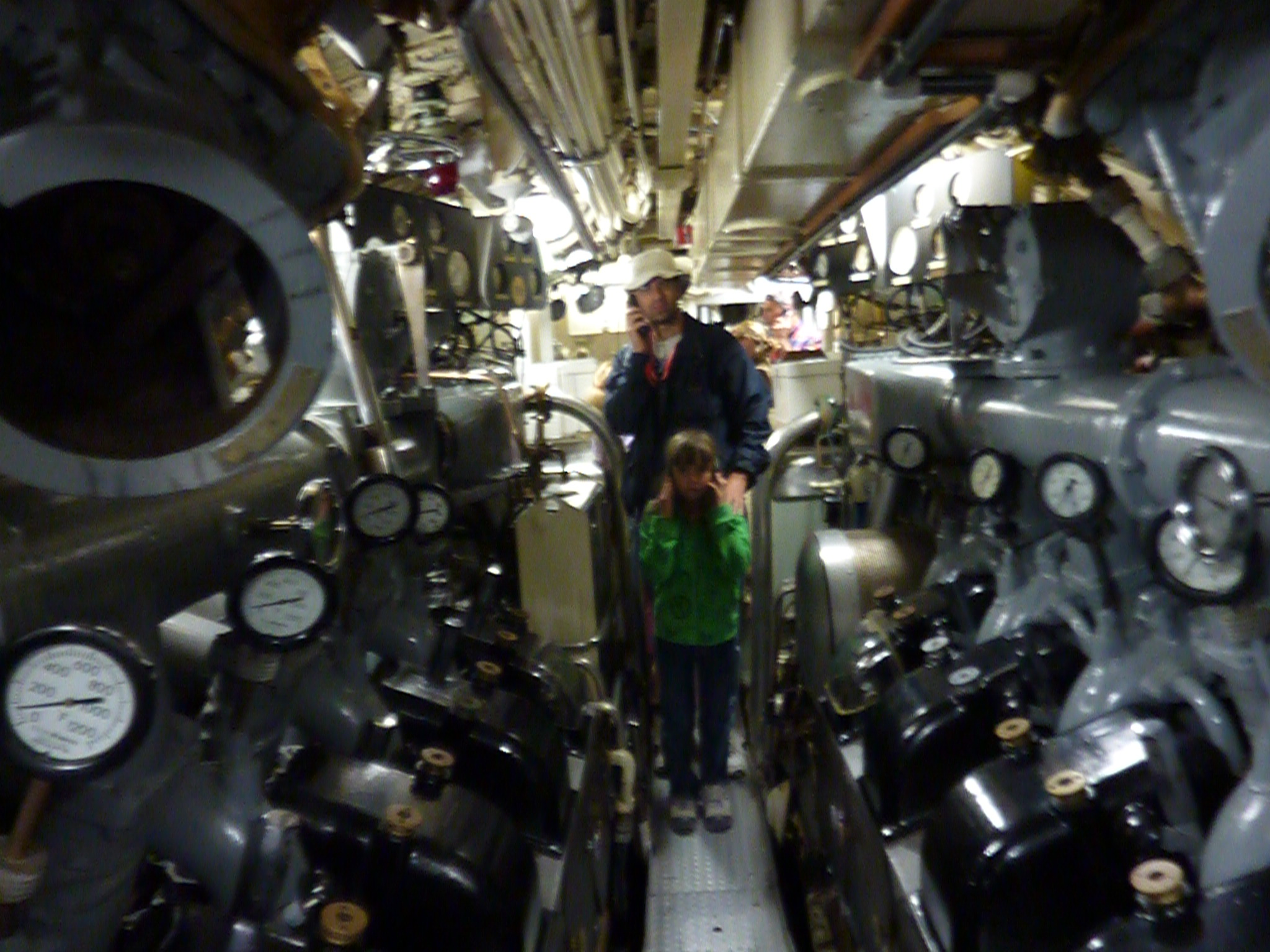 Engine room of the Onondaga submarine, Site historique maritime de la Pointe-au-pere, Rimouski, Quebec, Canada - september 2012.